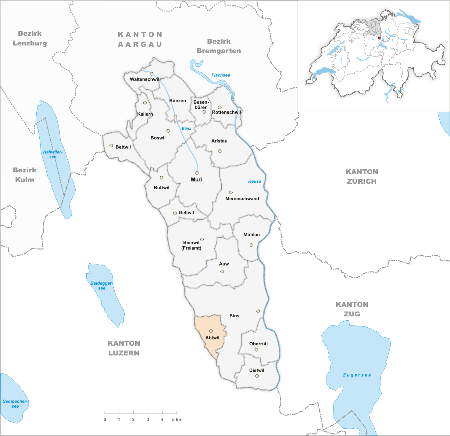 Municipality Abtwil